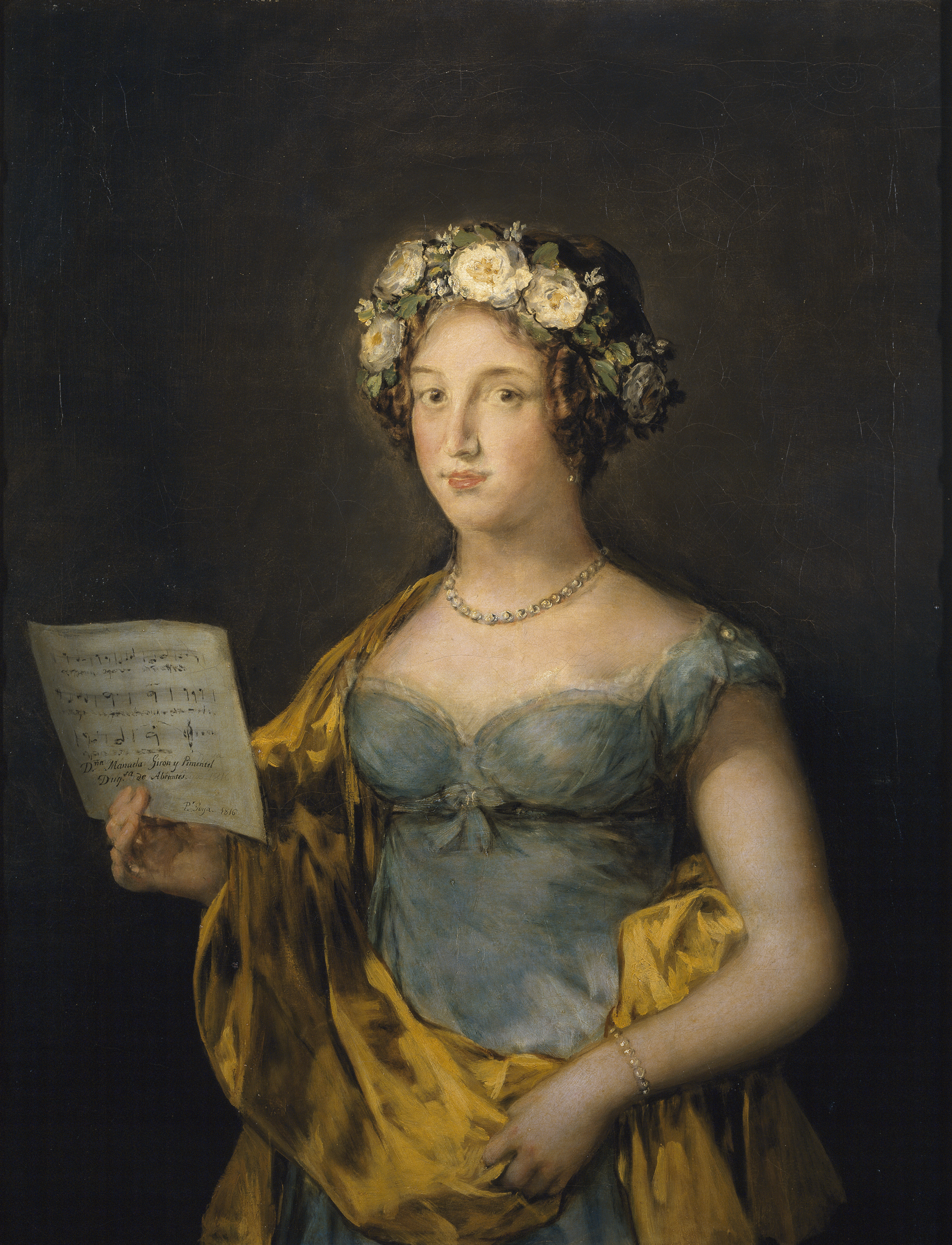 Portrait of Manuela Téllez Girón y Pimentel (1794-1838), Duchess of Abrantes, daughter of 9th Duke of Osuna